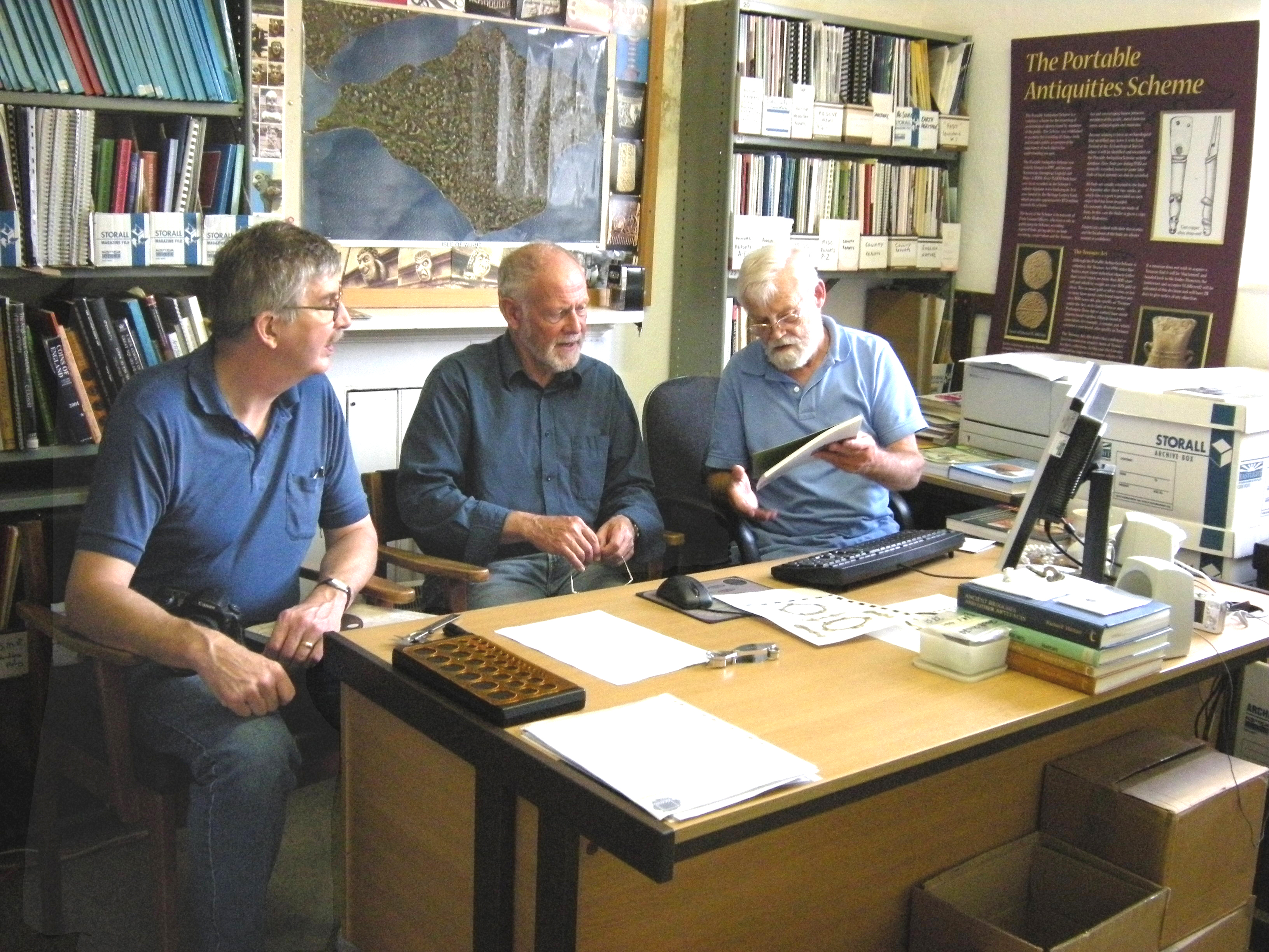 Bob Van Arsdell, Barry Cunliffe and Frank Basford discussing Iron Age finds on the Portable Antiquities Scheme database during a visit to the Isle of Wight Archaeological Centre, August 2008. Barry and Bob visited the Archaeological Centre to tell us about their involvement in the forthcoming Brading Roman Villa excavation. This was added from the site called under the name portableantiquities. See source for details.